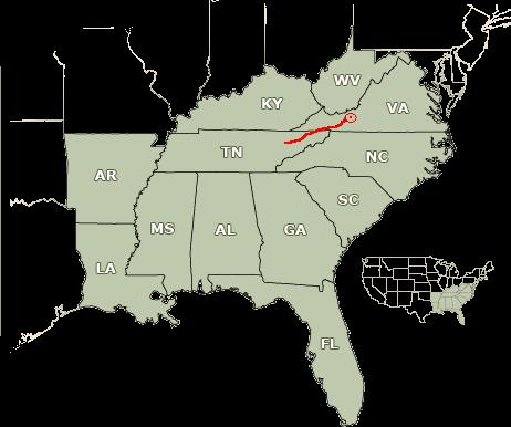 Stoneman's advance toward Marion before the Battle of Marion.